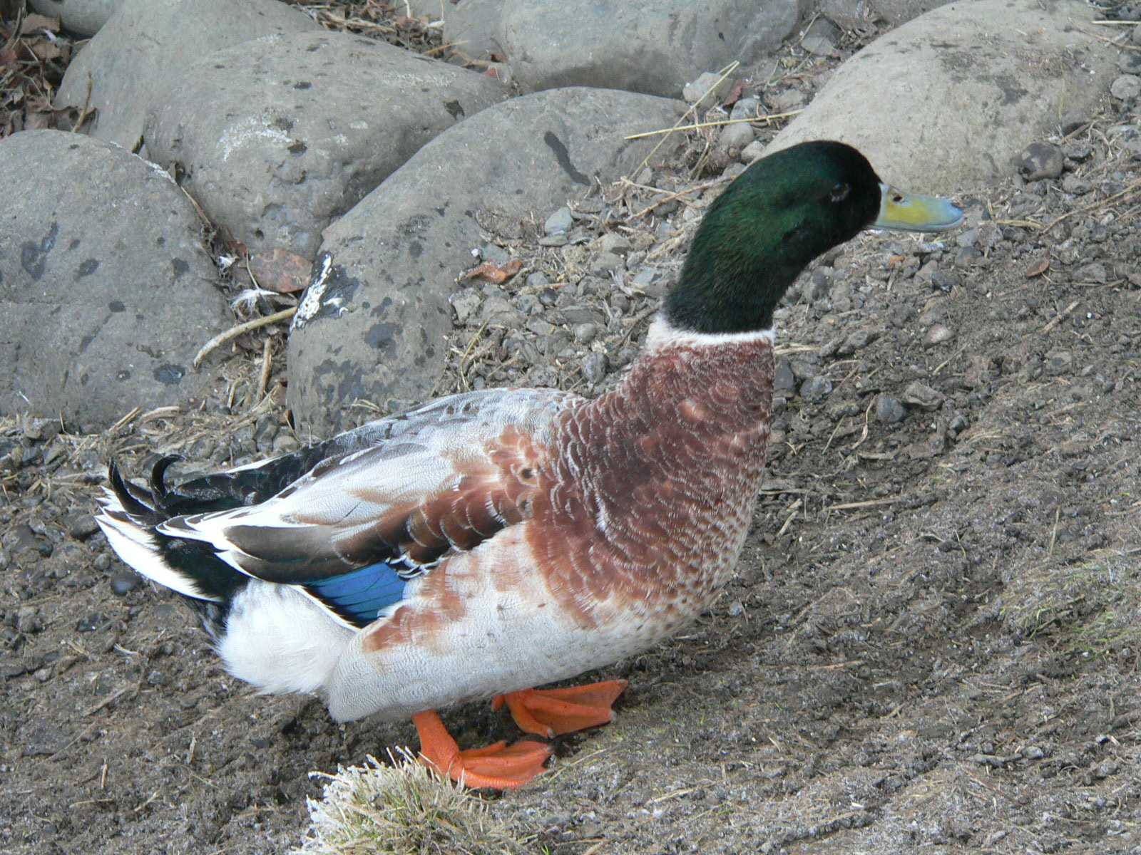 Snow formations in Akureyri, Iceland.